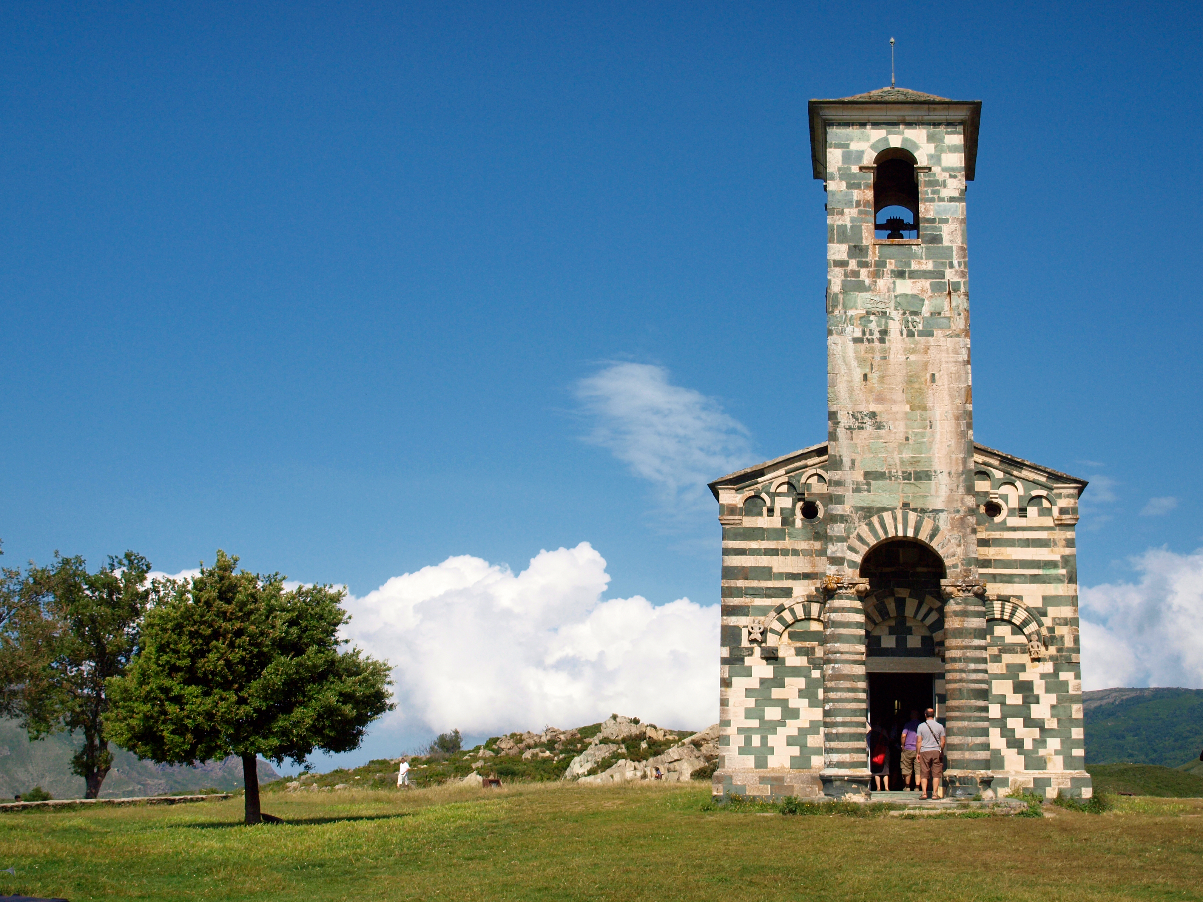 Murato (Corsica) - San Michele Church (12th century)